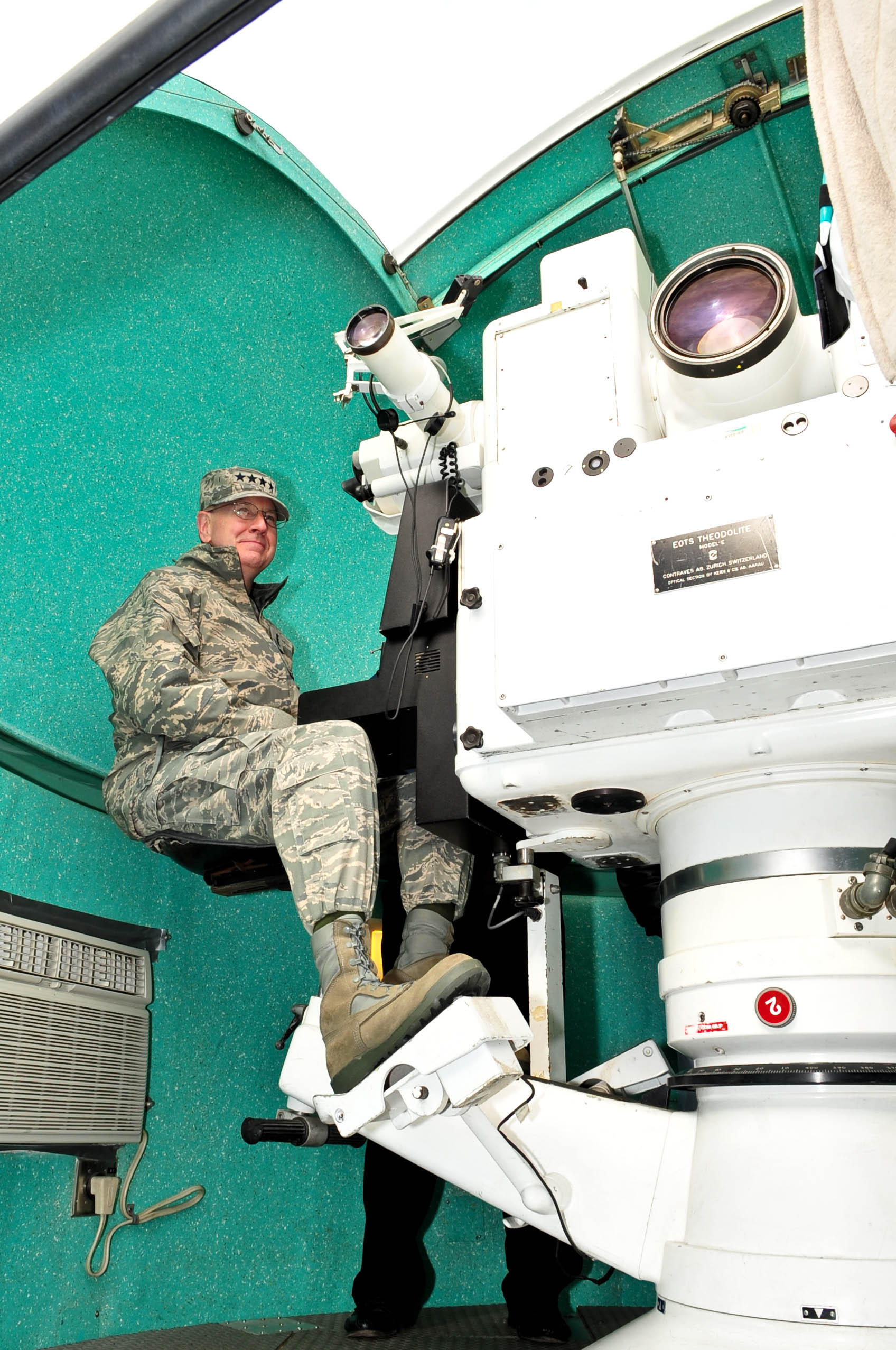 Gen. C. Robert Kehler, commander of Air Force Space Command, sits in a cinetheodolite during a visit to Cape Canaveral Air Force Station.